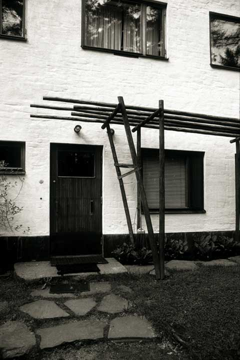 View towards side entrance